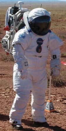 ILC Dover's I-Suit during field testing at the 2004 NASA Desert Research and Technology Studies (D-RATS).